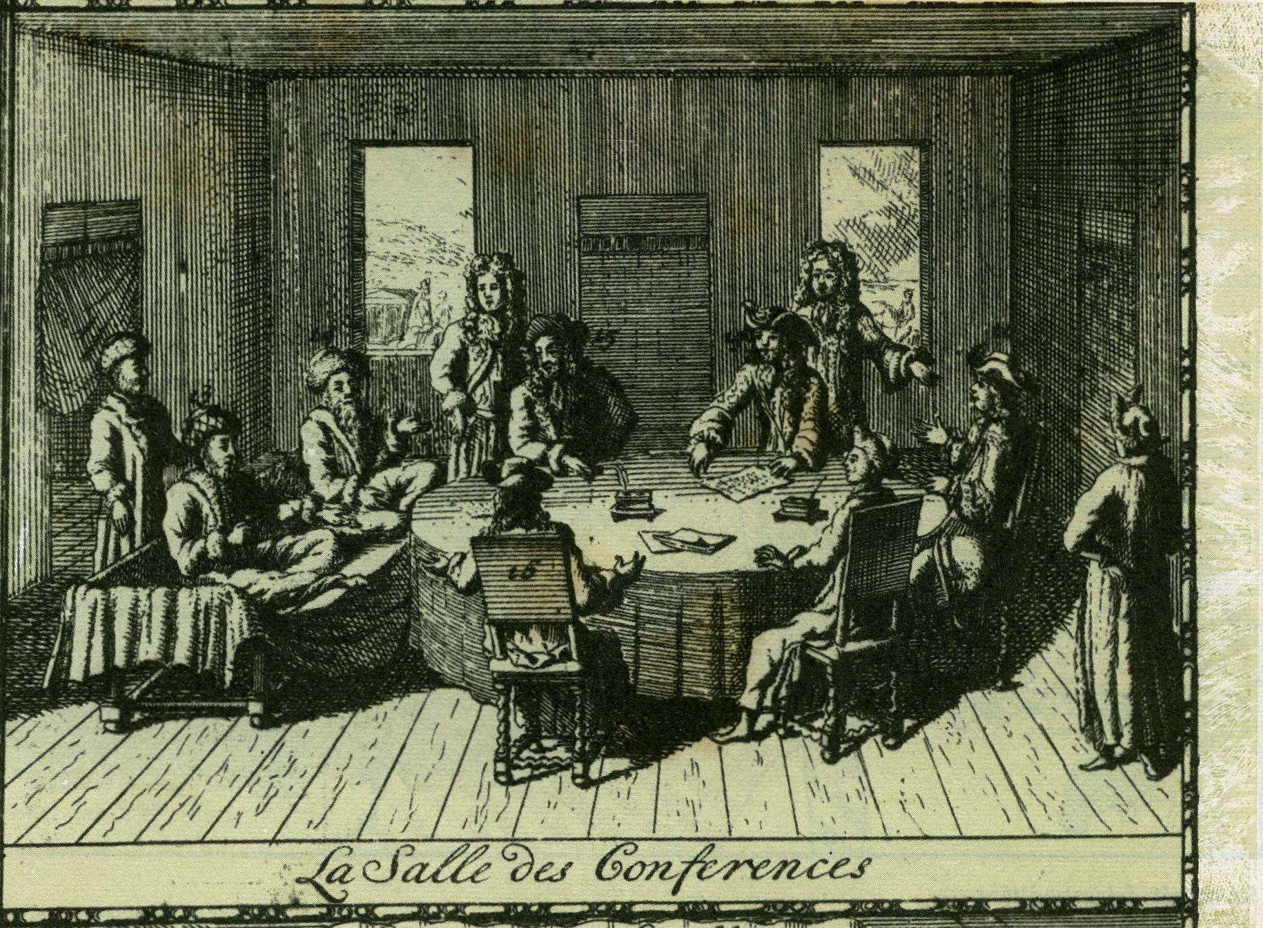 Peace conference in Karlowitz (present-day Sremski Karlovci, in Serbia) in 1699. (Treaty of Karlowitz) Engraving of unknown German artist from the Low Countries